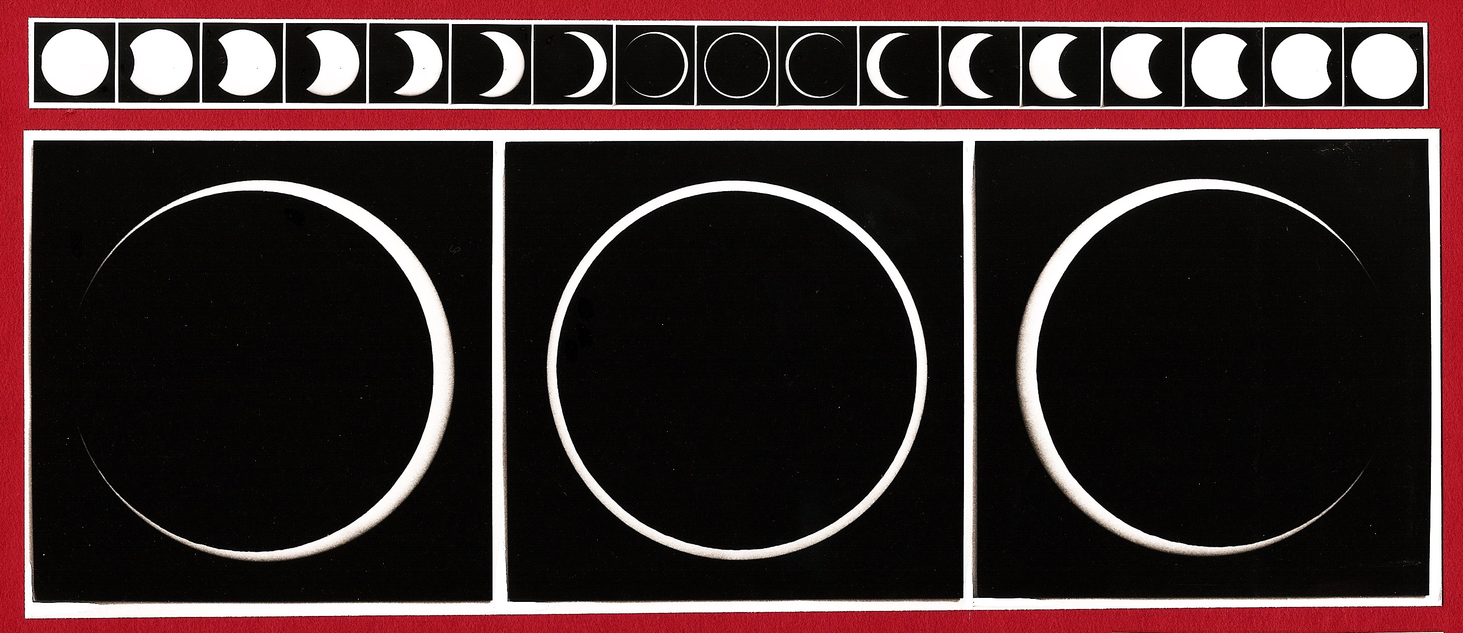 Annular solar eclipse of April 29, 1976 in Santorin, Greece